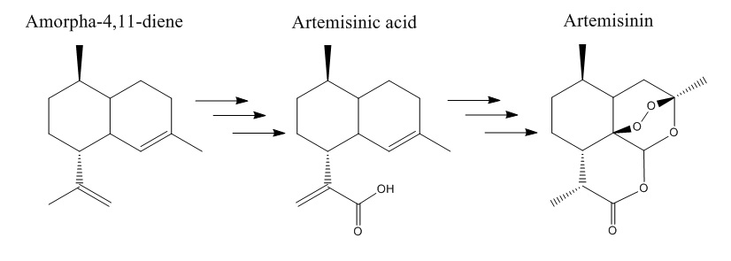 created with ChemDraw this shows the major products in the transition from amorphadiene to antimalarial artemisinin